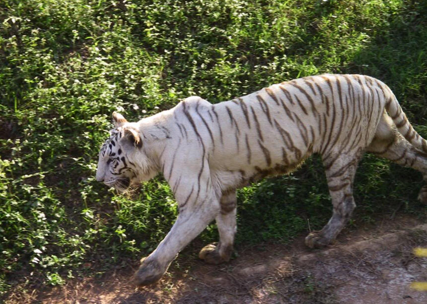 White Tiger in Nandankanan Zoological Park in Bhubaneswar, Odisha.